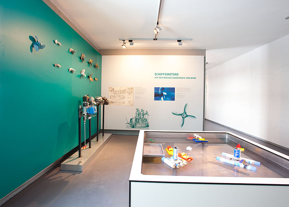 Experimental Station to Water in Phantechnikum